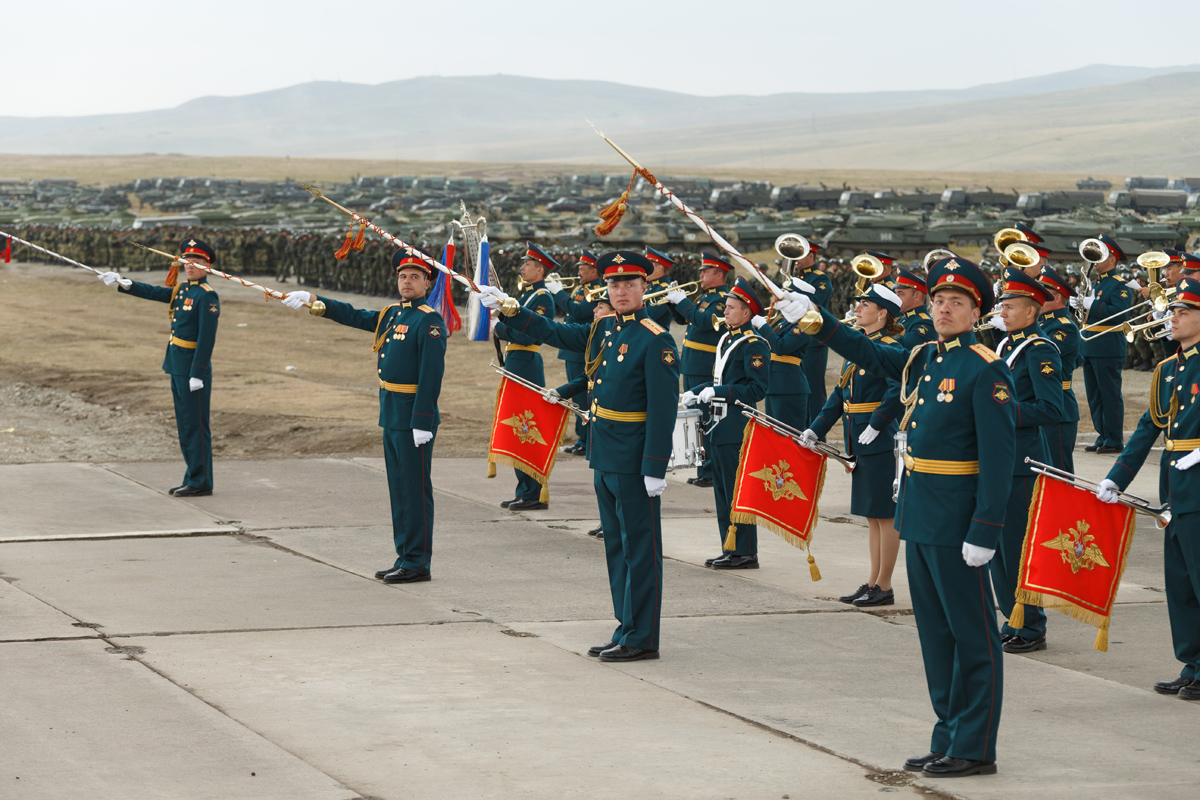 Military parade in Tsugol proving ground.